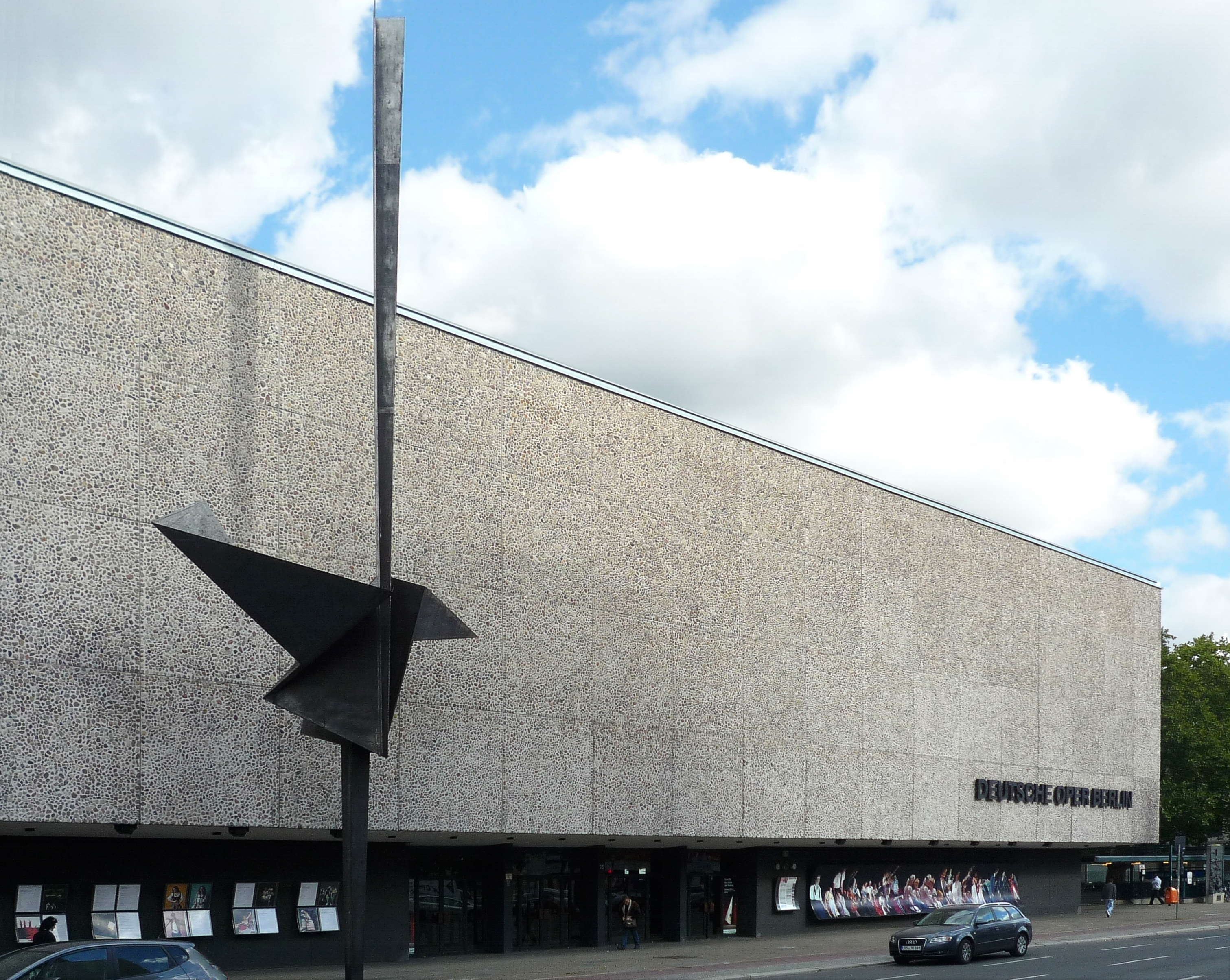 The Deutsche Oper Berlin (German Opera Berlin). Facade at Bismarckstraße. Sculpture by Hans Uhlmann.